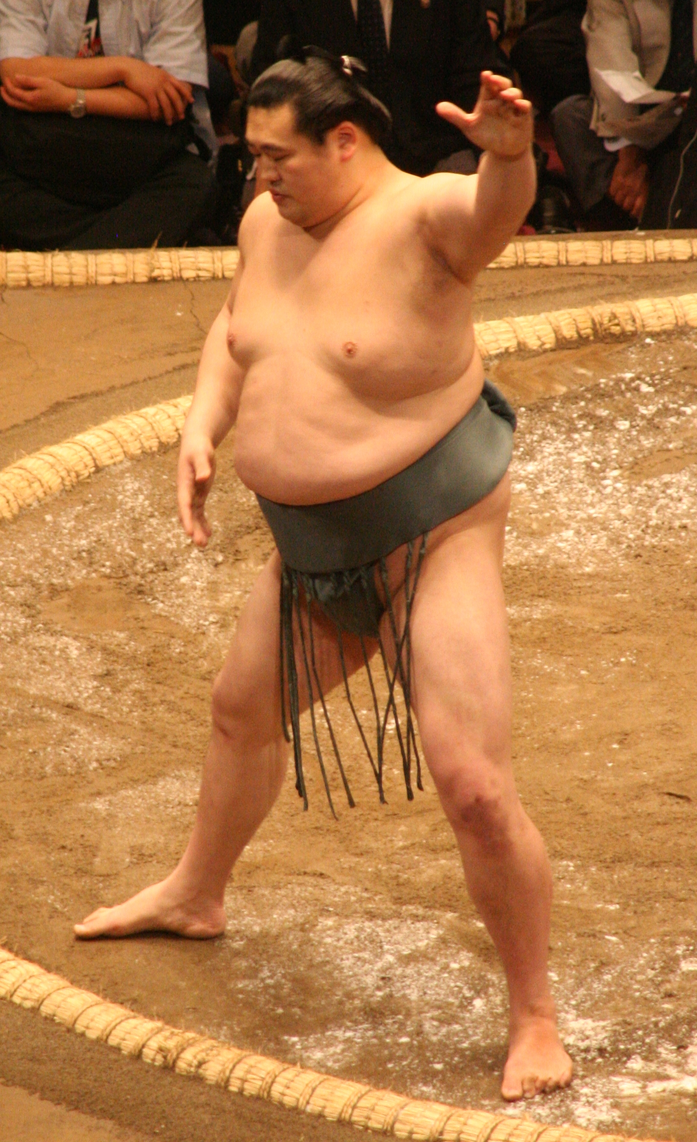 First day of 2009 May Sumo Tournament in Tokyo, Japan - Shimotori